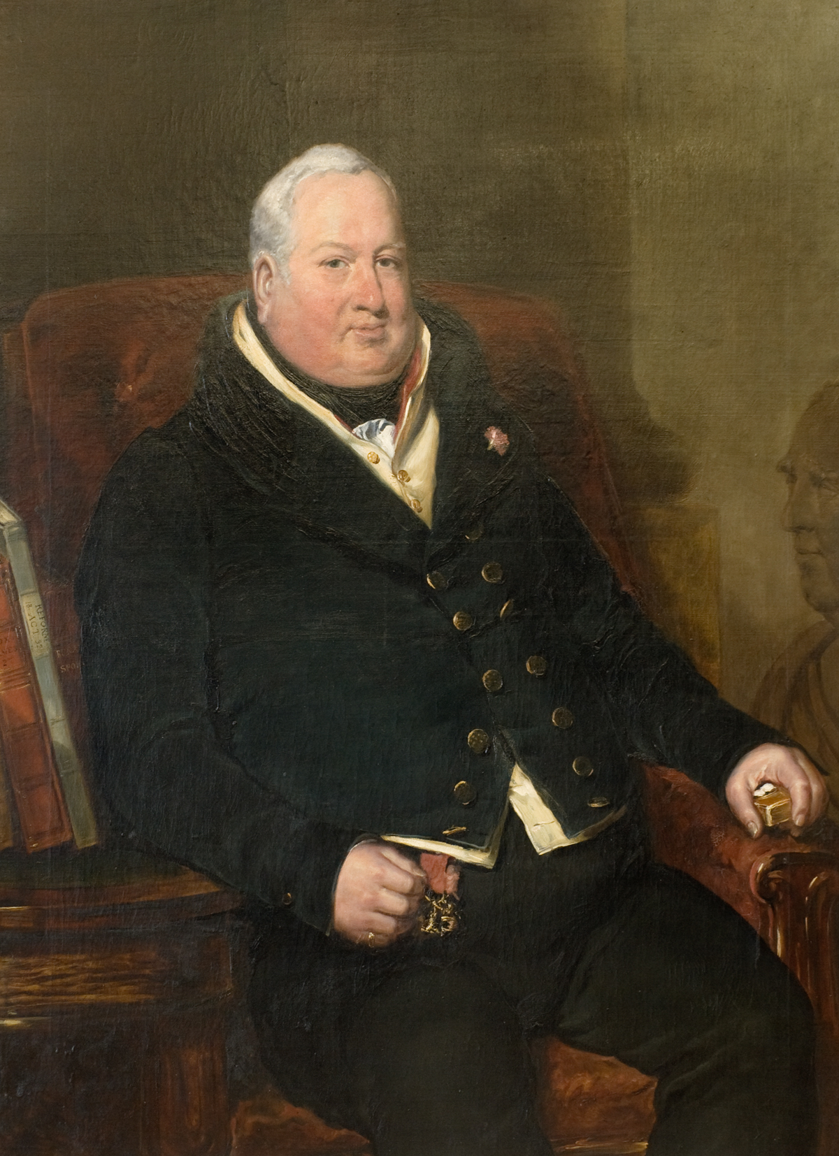 Lord Panmure - patron of and by Thomas Musgrave Joy (9 July, 1812 – 7 April, 1866) - a painter known principally for his portraits.